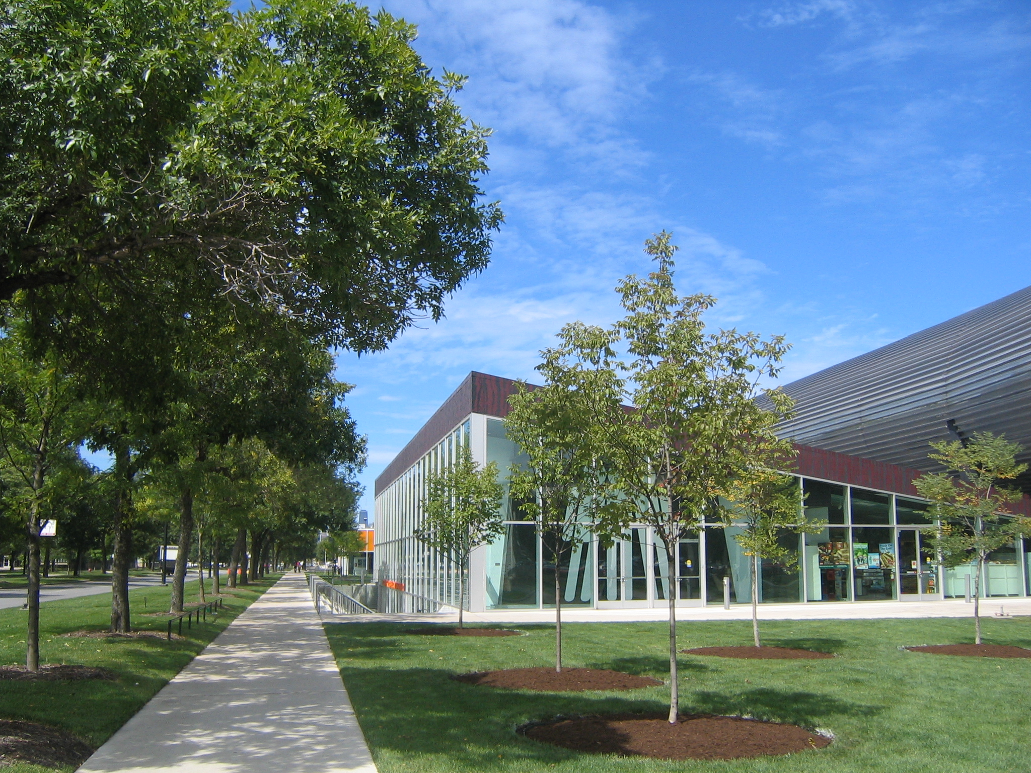 The McCormick Tribune Campus Center at Illinois Institute of Technology from the southwest corner of the building.